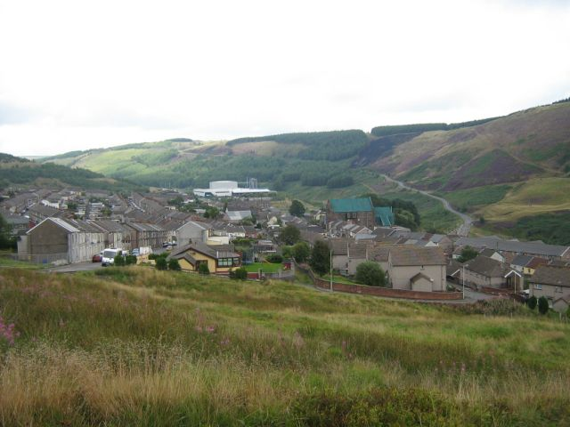 Maerdy. No longer a mining village, now reliant on modern industry - the prominent factory - or commuting. The road leads over the hill to Aberdare (the railhead and shops)